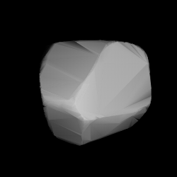 3D convex shape model of 1703 Barry, computed using light curve inversion techniques. J. Hanuš, J. Ďurech, M. Brož, B. D. Warner (June 2011). "A study of asteroid pole-latitude distribution based on an extended set of shape models derived by the lightcurve inversion method". Astronomy and Astrophysics 530: A134. ISSN 0004-6361. arXiv